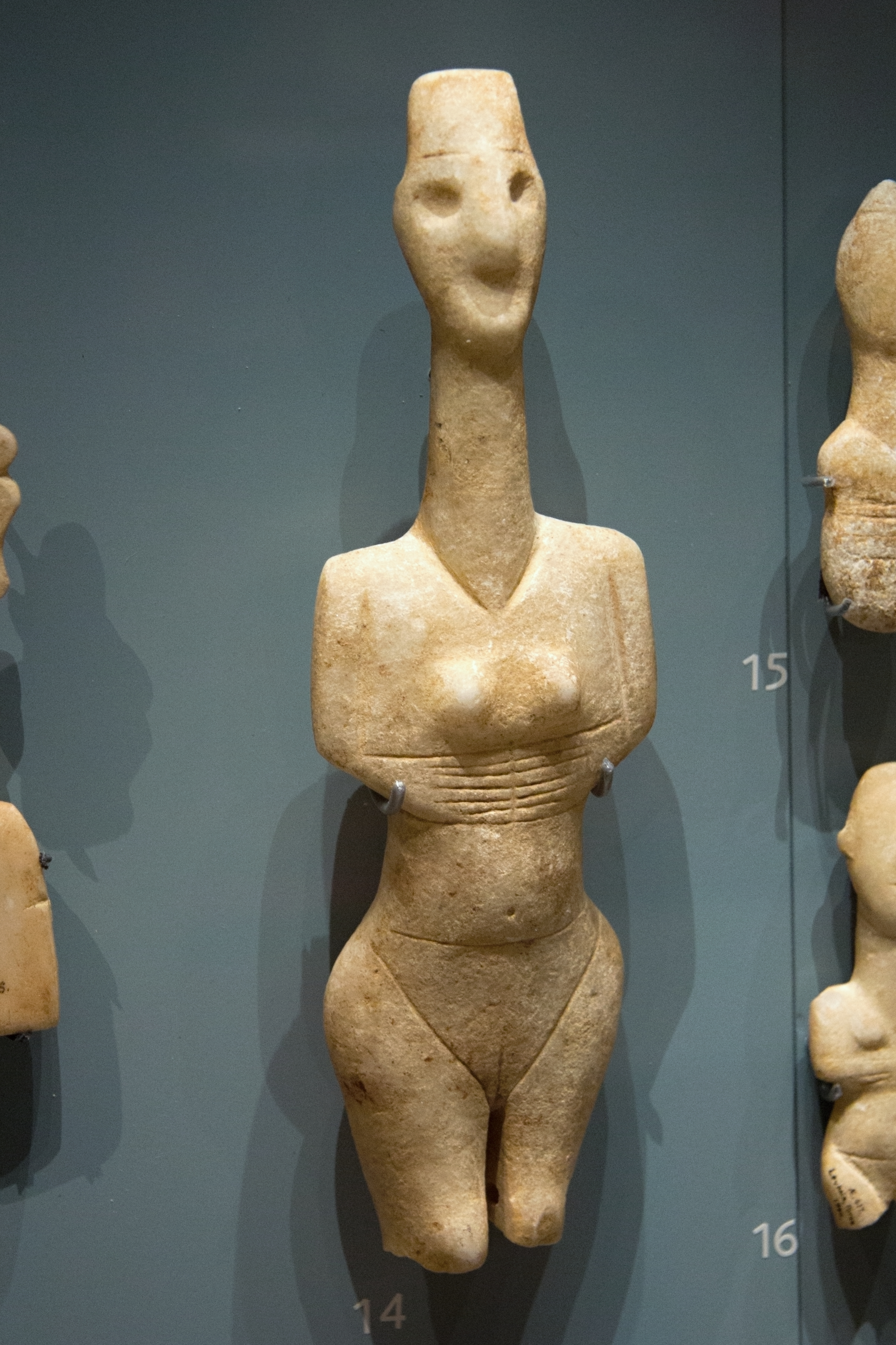 Cycladic female figurine, Plastiras type, from Drakatis on Naxos, marble. Early Bronze Age, EC I, 3200 – 2800 BC. Ashmolean Museum AN 1946.118.